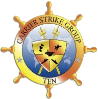 Official Command Crest of Carrier Strike Group Ten.